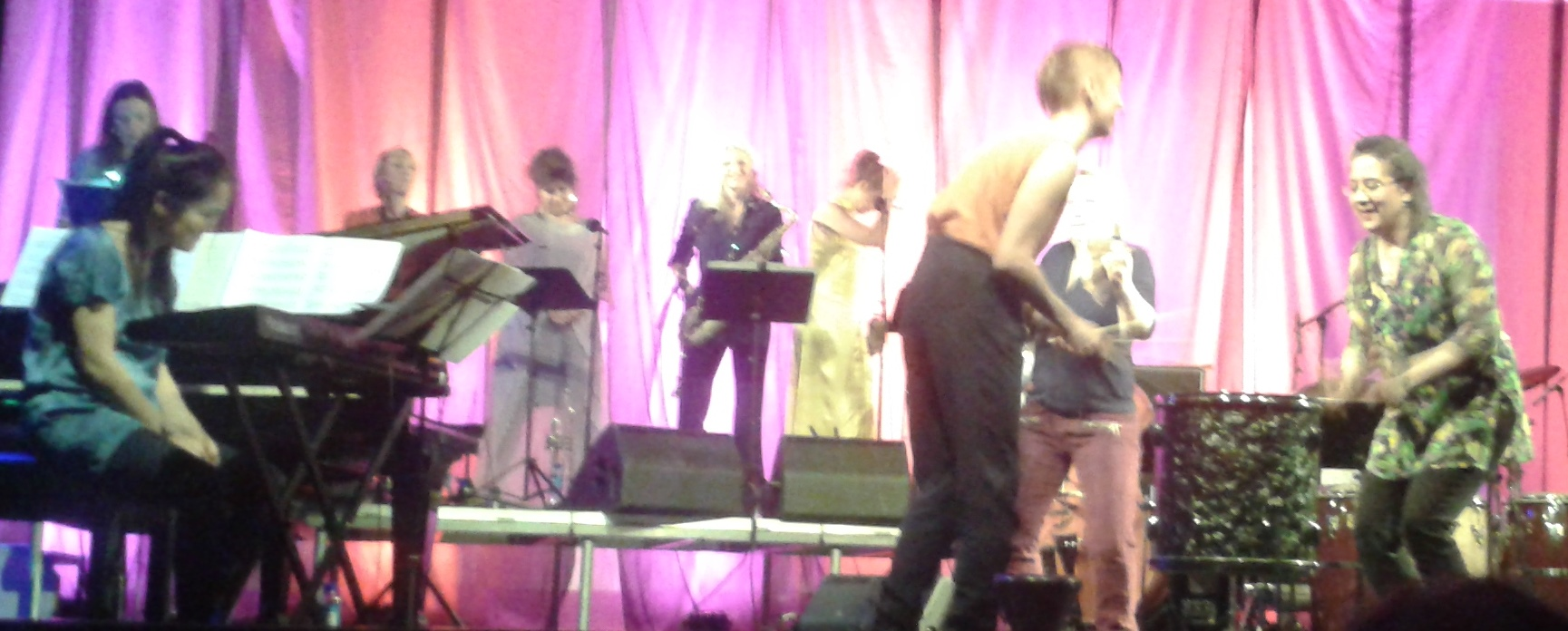 Marilyn Mazur's Shamania with Anna Lund at Vossajazz 2016.